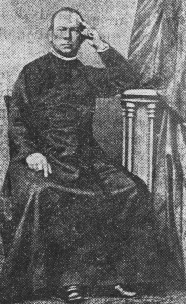 József Borovnyák (Jožef Borovnjak) in the photo of Johann Klein